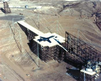 A Rockwell B-1B strategic bomber is readied for testing at Sandia National Labs|/Kirtland AFB's TRESTLE EMP pulse simulation apparatus in 1989.